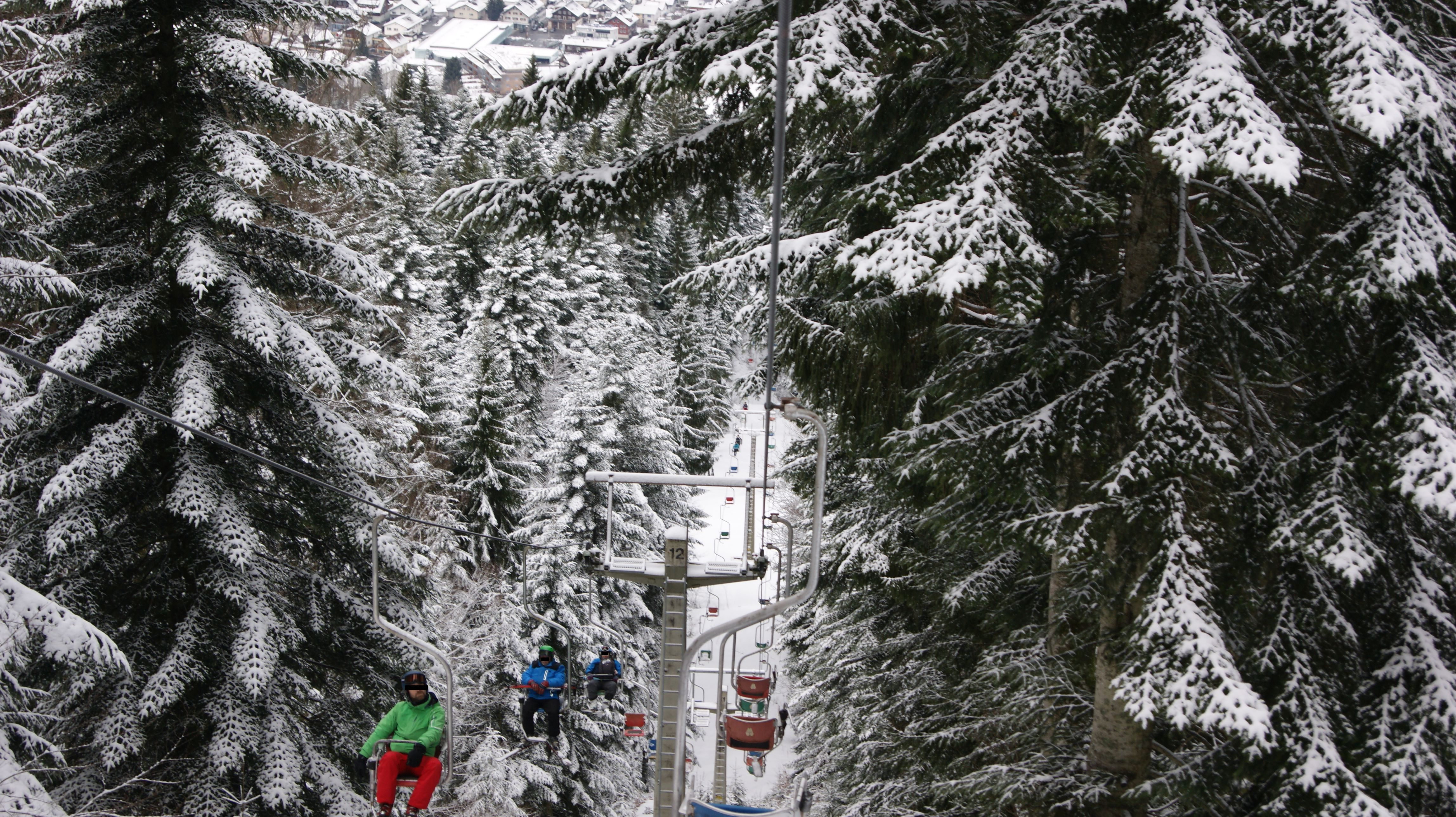 Track of the 1-Person-Chairlift (fixed grip) up to the "Brueggelekopf" (mountain) in Alberschwende (1967-2018).